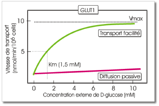 corba glut1